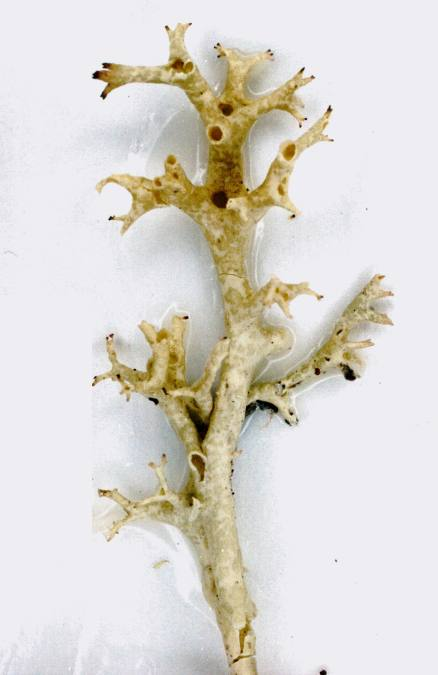 Cladonia uncialis (L.) F.H. Wigg., 1780 Photograph of a herbarium specimen. This specimen of Cladonia uncialis was growing on soil near the Little Cape Point Trail on Great Wass Island, Washington County, Maine, USA. Collected by E.C. Uebel, and identified by David H.S. Richardson (No. U-207, 14 Jun 2001)